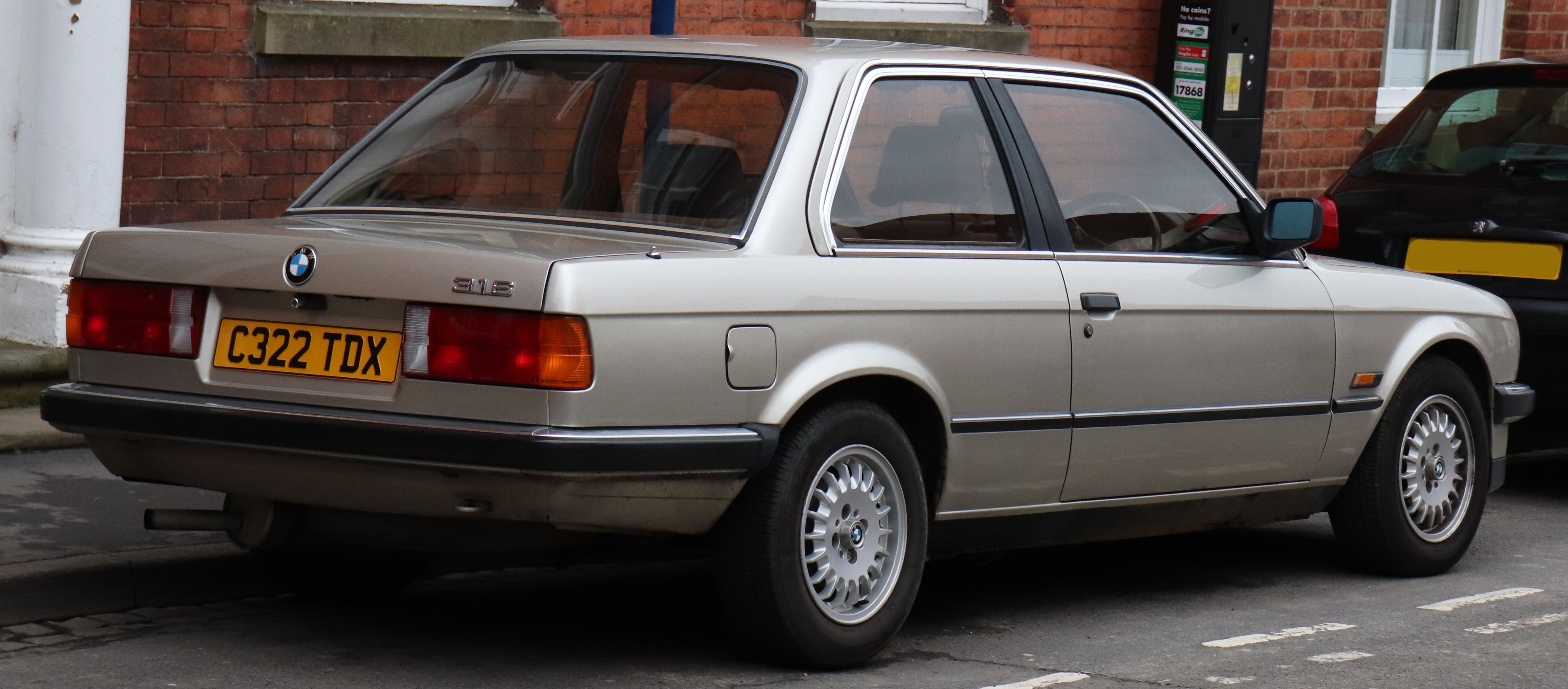 1986 BMW 316 1.8 Rear Taken in Warwick